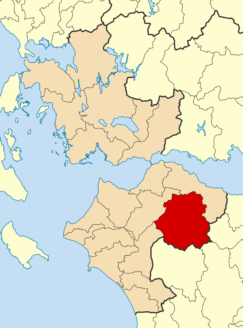 Locator map for Kalavryta municipality in Greek region Western Greece (2011)